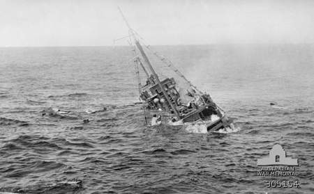 A Japanese boat, Chiyo Maru (地洋丸) , No.3 Shinko Maru (第三振興丸, see 18 April) or Takashiro Maru (高城丸, see 16 November), sinking after gun action against USS Tambor.